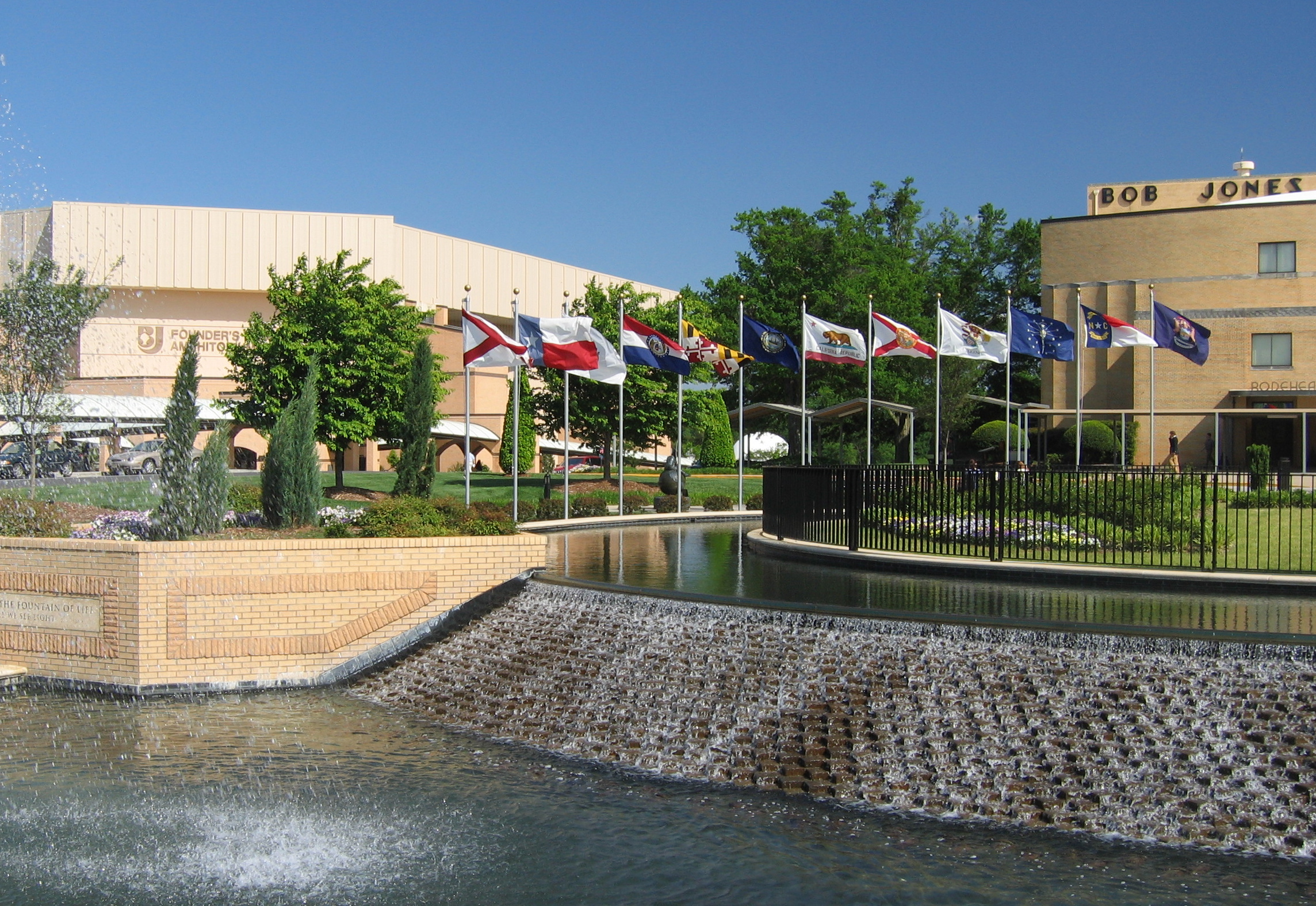 Front Campus Fountain, Bob Jones University